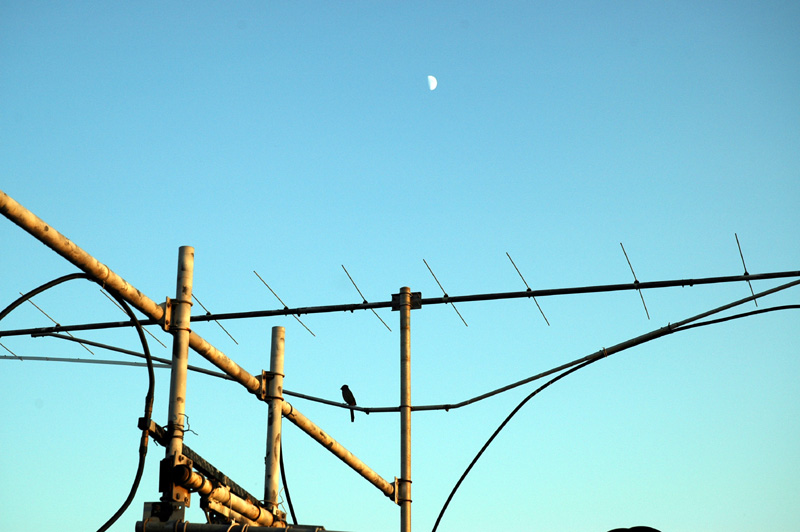 A part of an antenna array used for EME (Moonbounce) amateur radio communication on 144 MHz. Photograph by Henryk Kotowski taken in California, USA in September 2006 at WA6PY Amateur Radio Station.